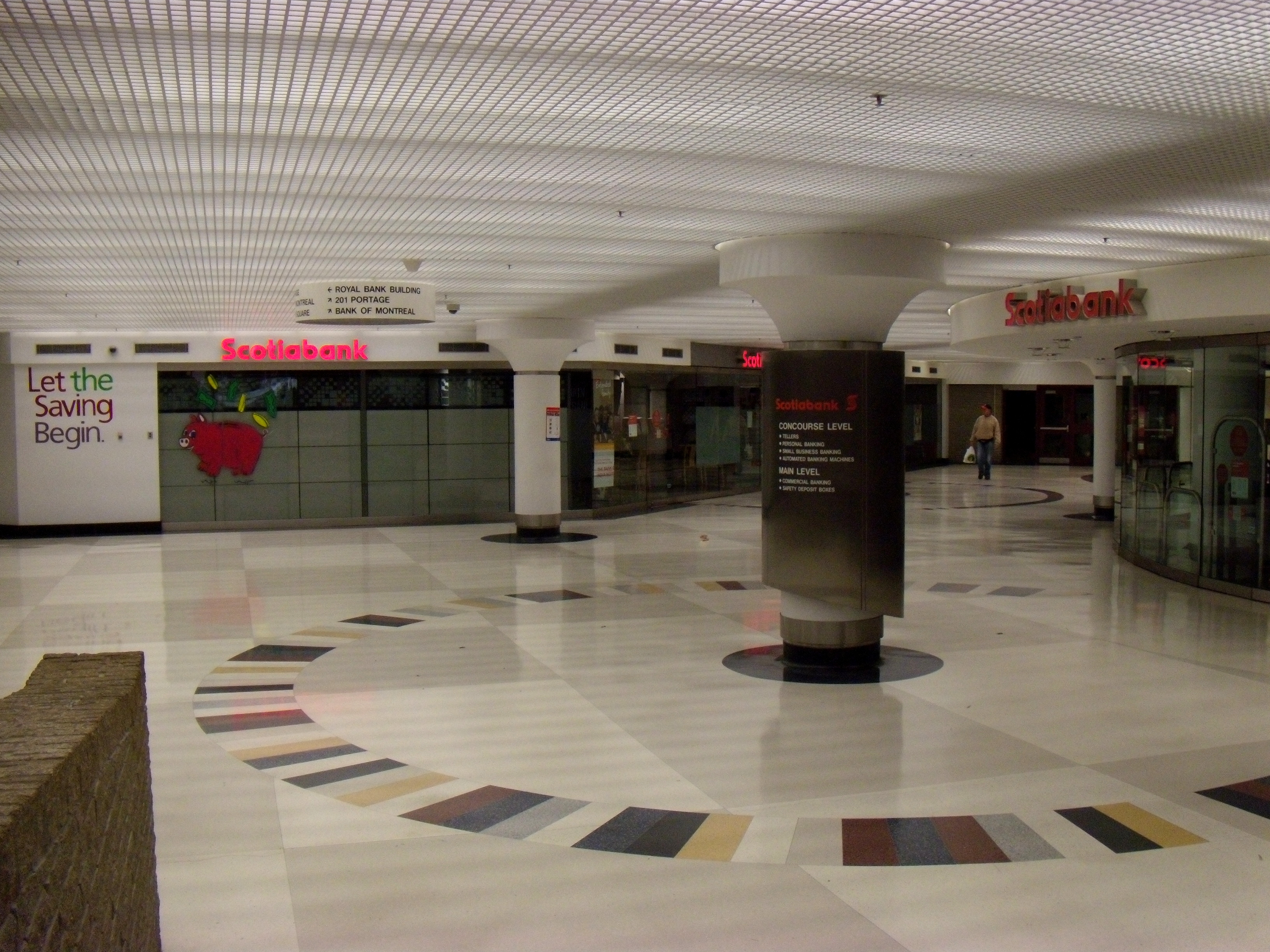 Scotiabank Concourse level in "Winnipeg Square" underground mall in Winnipeg, Manitoba